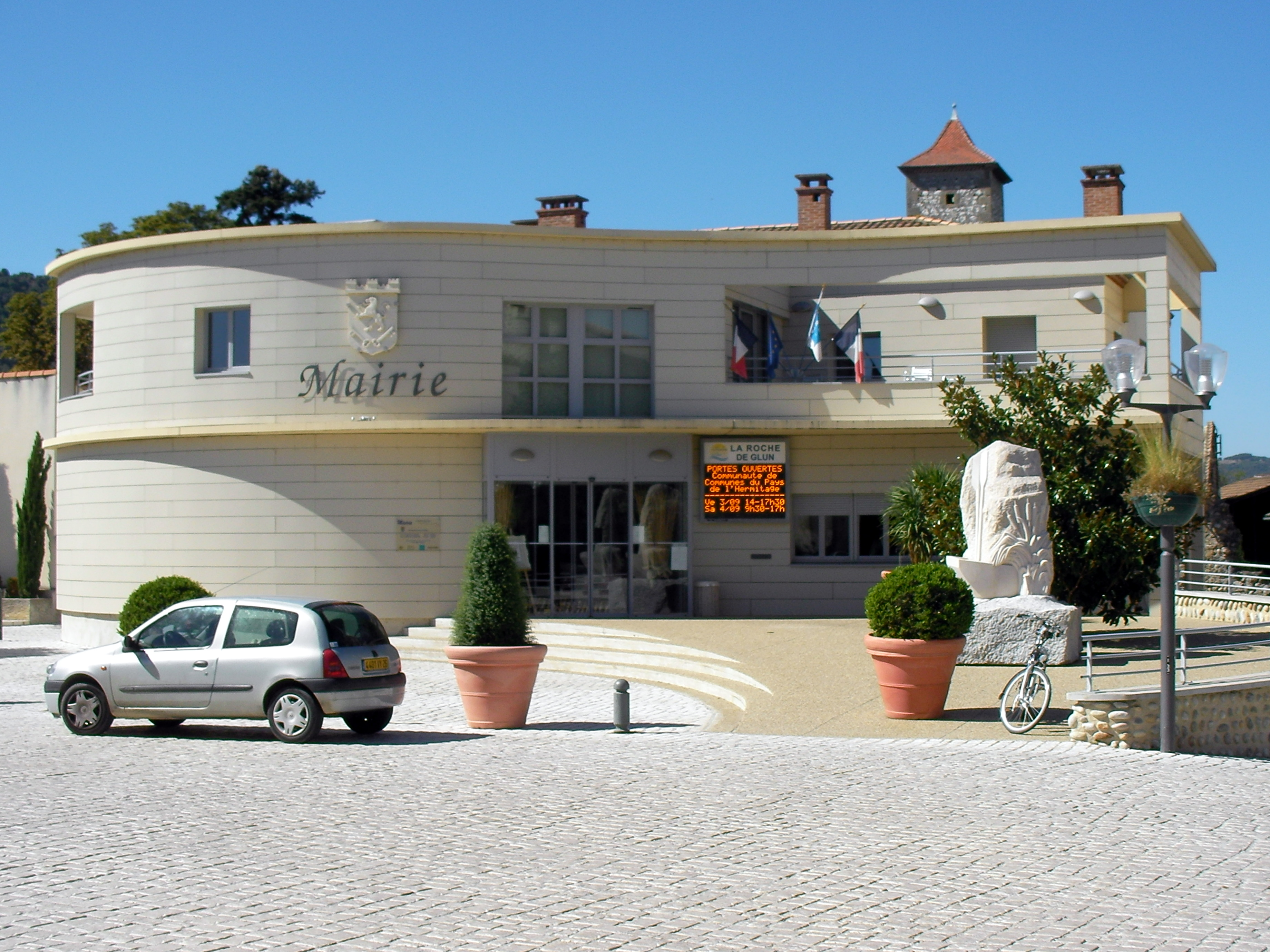 Town hall of La Roche de Glun - Drôme - France